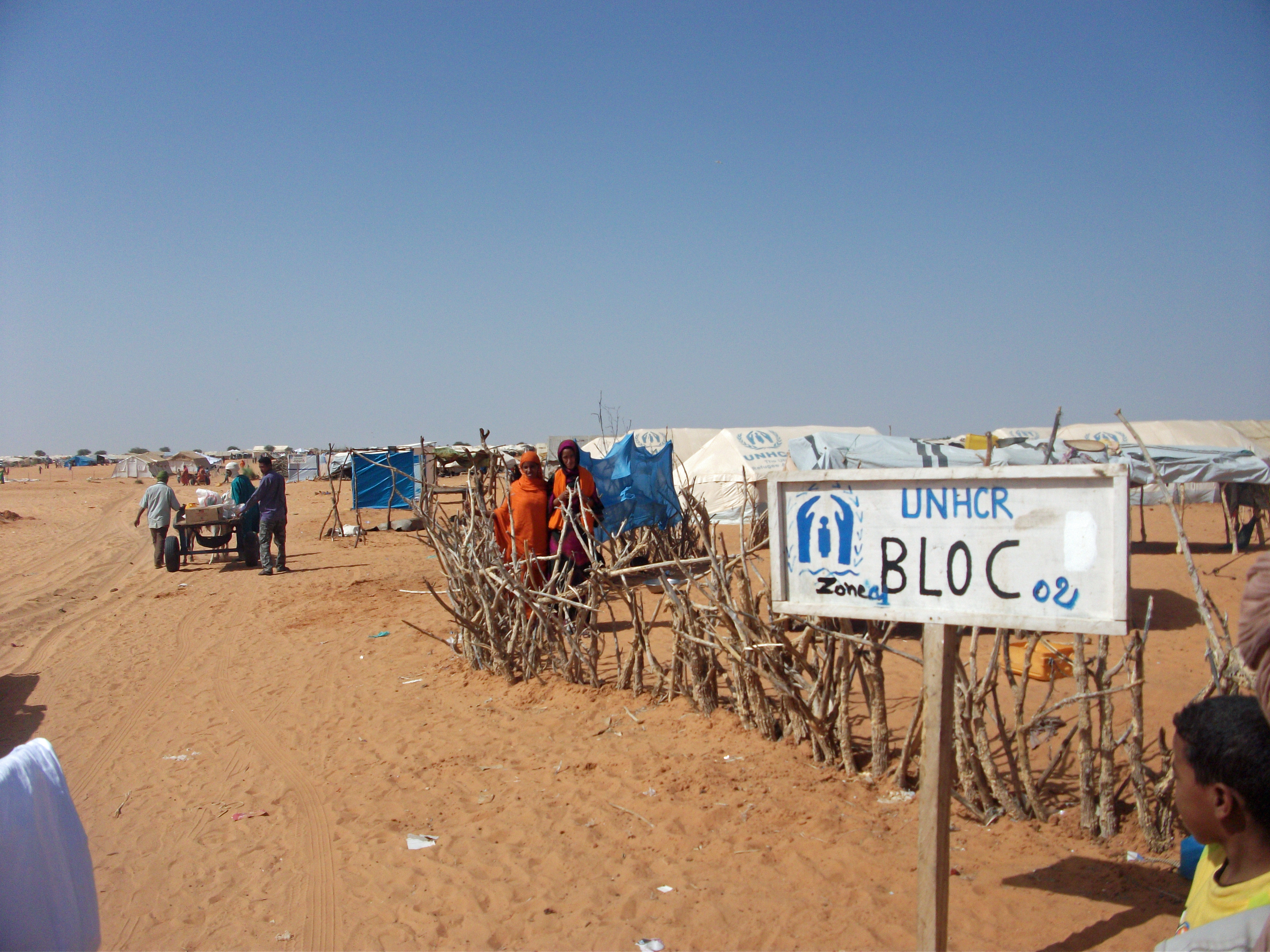 Tens of thousands of Malians are now living in Mauritanian refugee camps after being forced from their homes by violence.